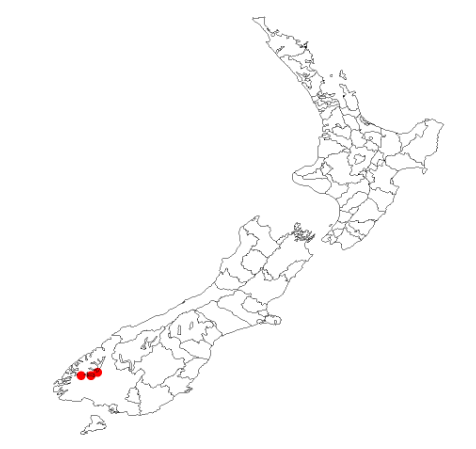 Carmichaelia lacustris occurrence data from Australasian Virtual Herbarium downloaded 2 December 2019 using